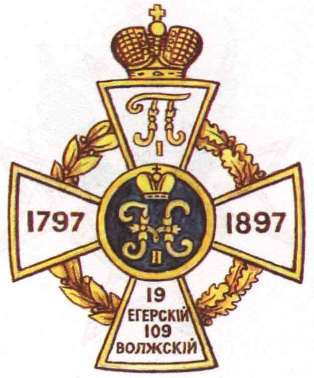 Badge of Volgsky 109-th Regiment